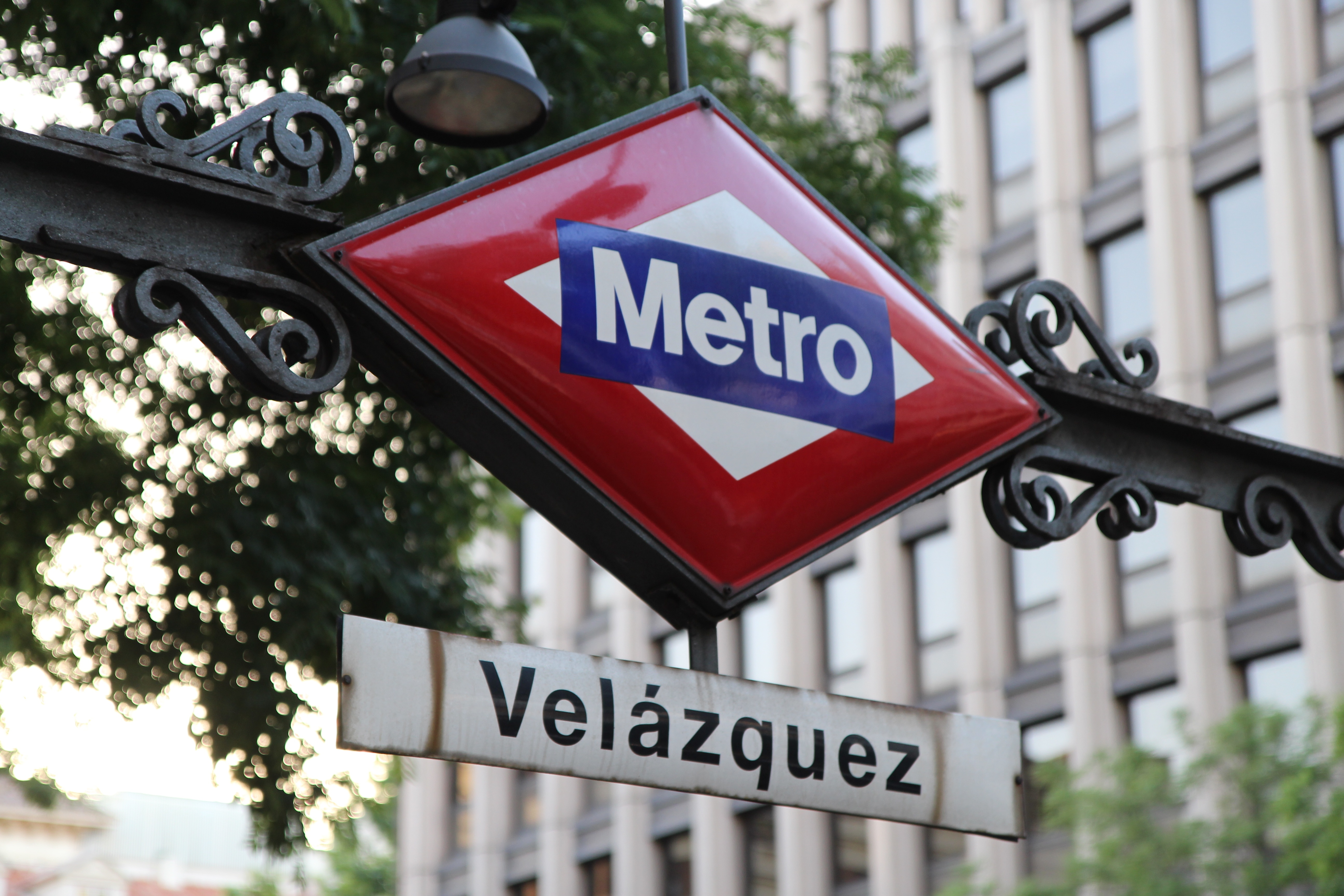 The sign above the Velazquez metro stop in Madrid, Spain